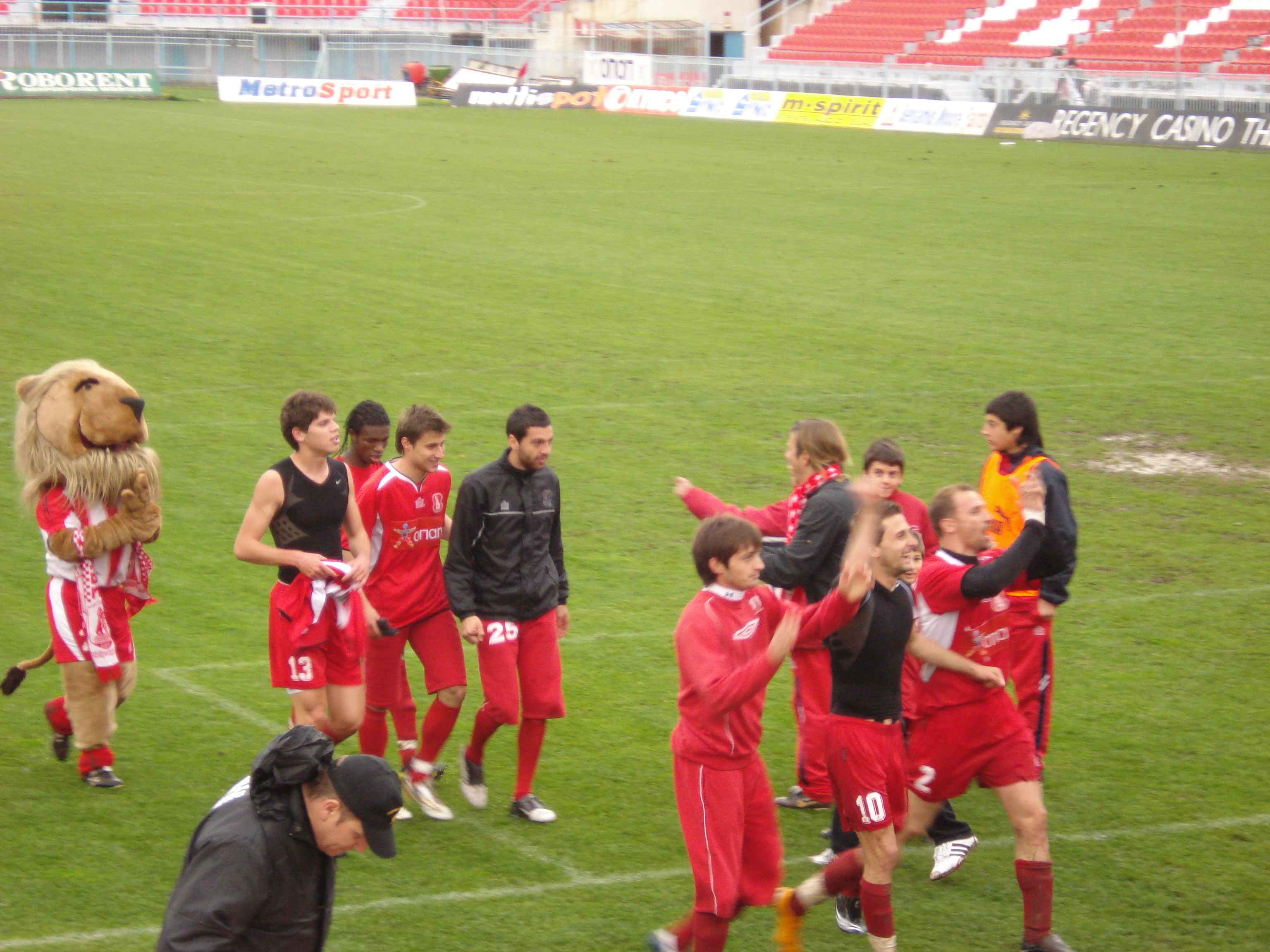 Panserraikos FC (Πανσερραϊκός) players celebrating after their 5-0 win over Pierikos FC (Πιερικός) in the Greek Second Division of association football.